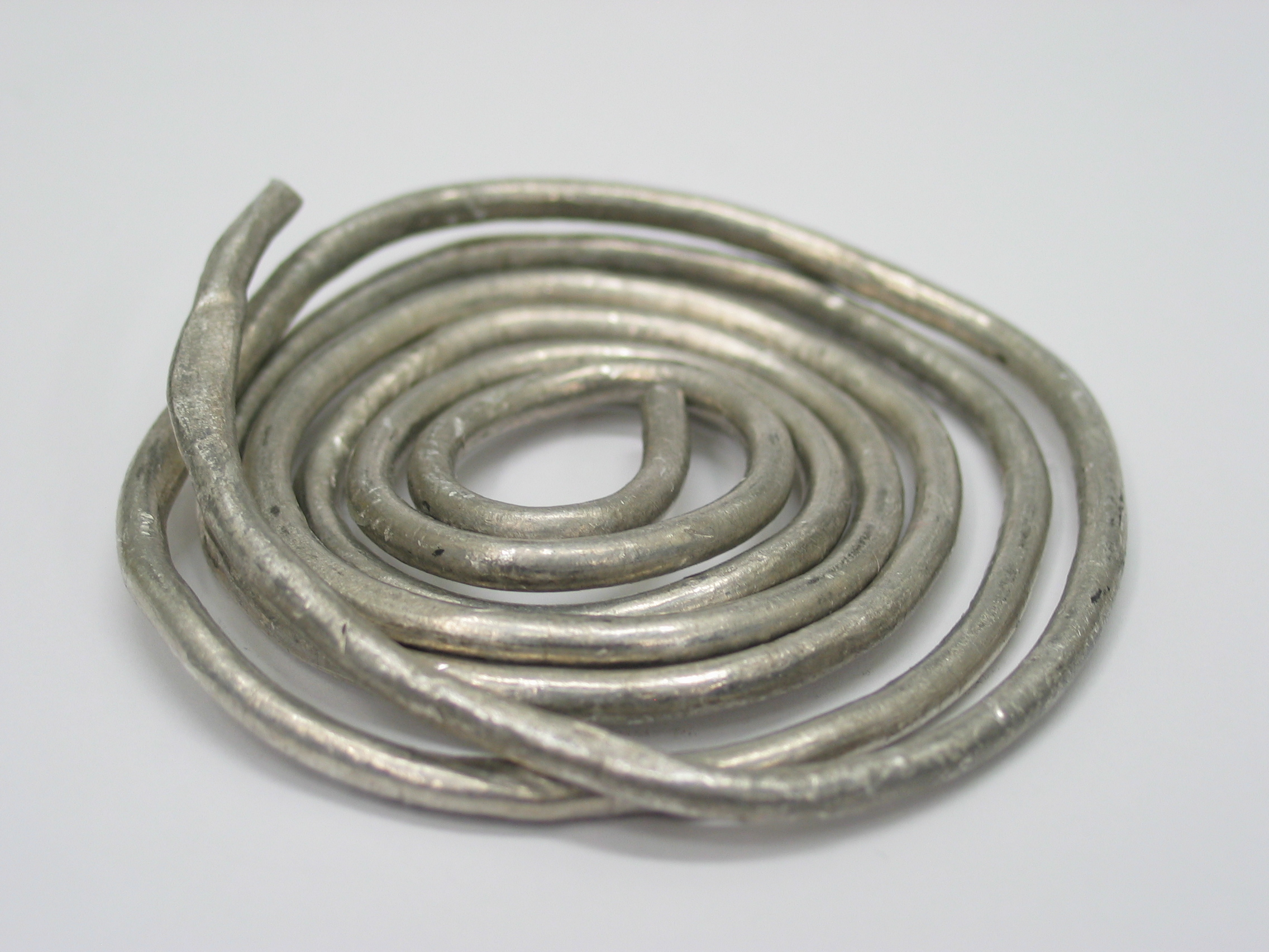 Ductile indium wire with a thickness of about 3mm. Image taken by User:Dschwen on January 5th 2006.